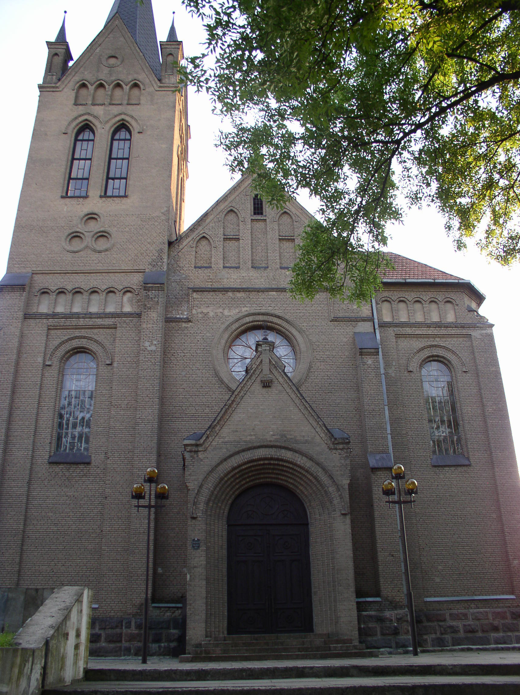 Church of the Exaltation of the Holy Cross, Vileyka, Belarus.